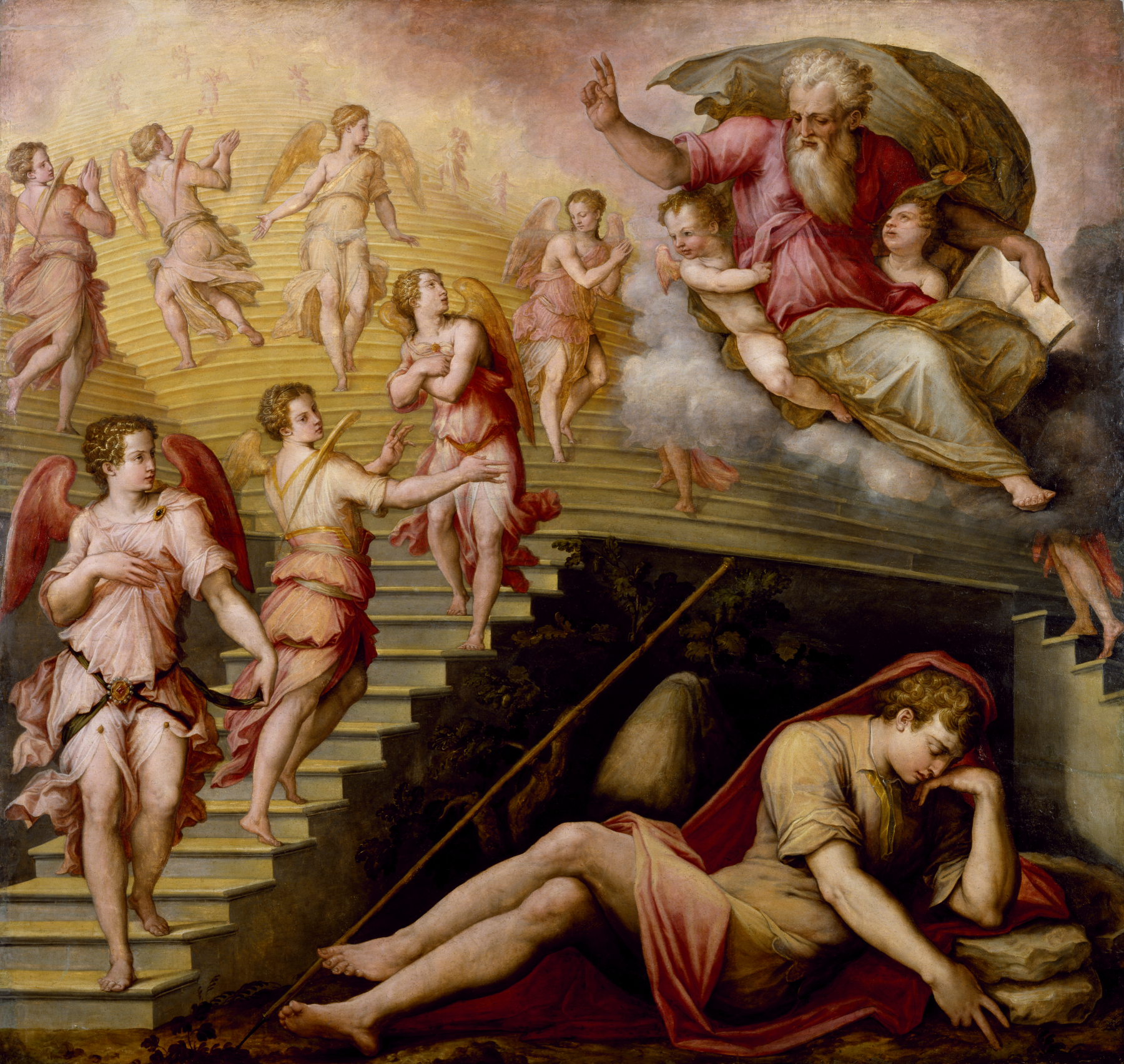 As recounted in the Old Testament book of Genesis, on his way to Haran, Jacob lay down in the wilderness to sleep, resting his head on a stone. He dreamed of angels ascending and descending a stairway or ladder to heaven (here depicted as a monumental Renaissance-style staircase). God then appeared and blessed Jacob and his descendants. This large panel, apparently intended for a ceiling, was done by the painter, architect, and author Giorgio Vasari for the Florentine Marsilio degli Albizi in 1558. The figures of God the Father and Jacob are based on famous frescoes by Michelangelo (1475-1564) and Raphael (1483-1520) in the Vatican. Vasari wrote the first history of Italian art, in which he praised these Roman frescoes as the culmination of the art of painting. His references to them in his painting are another form of homage.